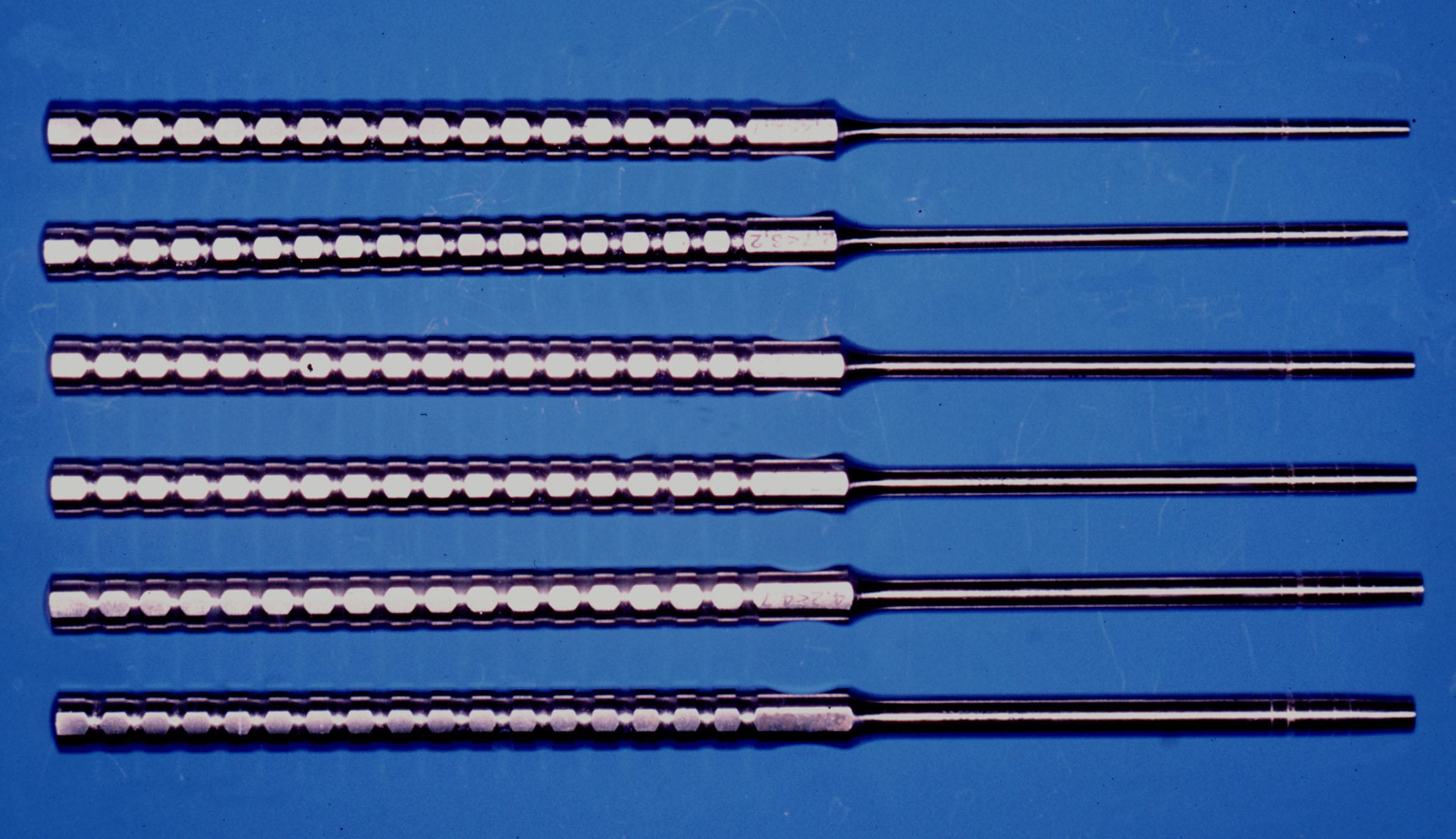 Osteotome used in dental implantology